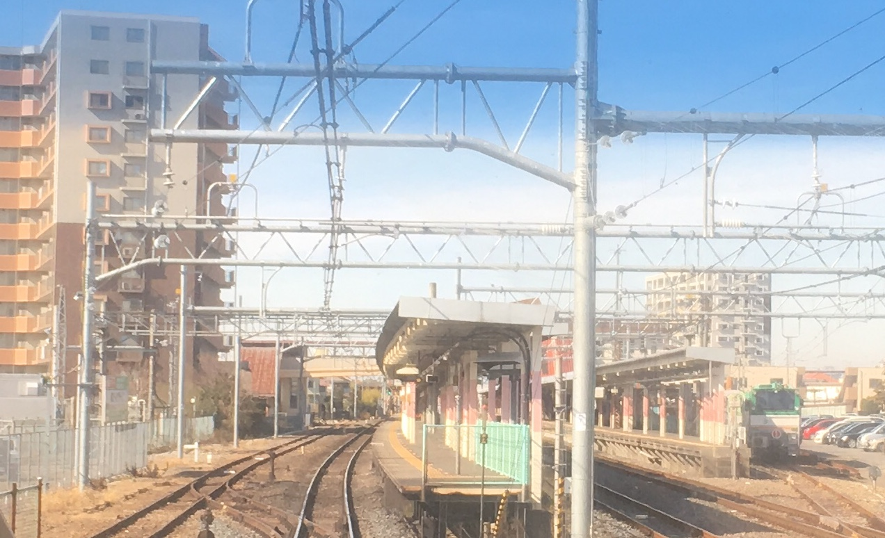 Fukiage Station platforms (吹上駅のホーム)